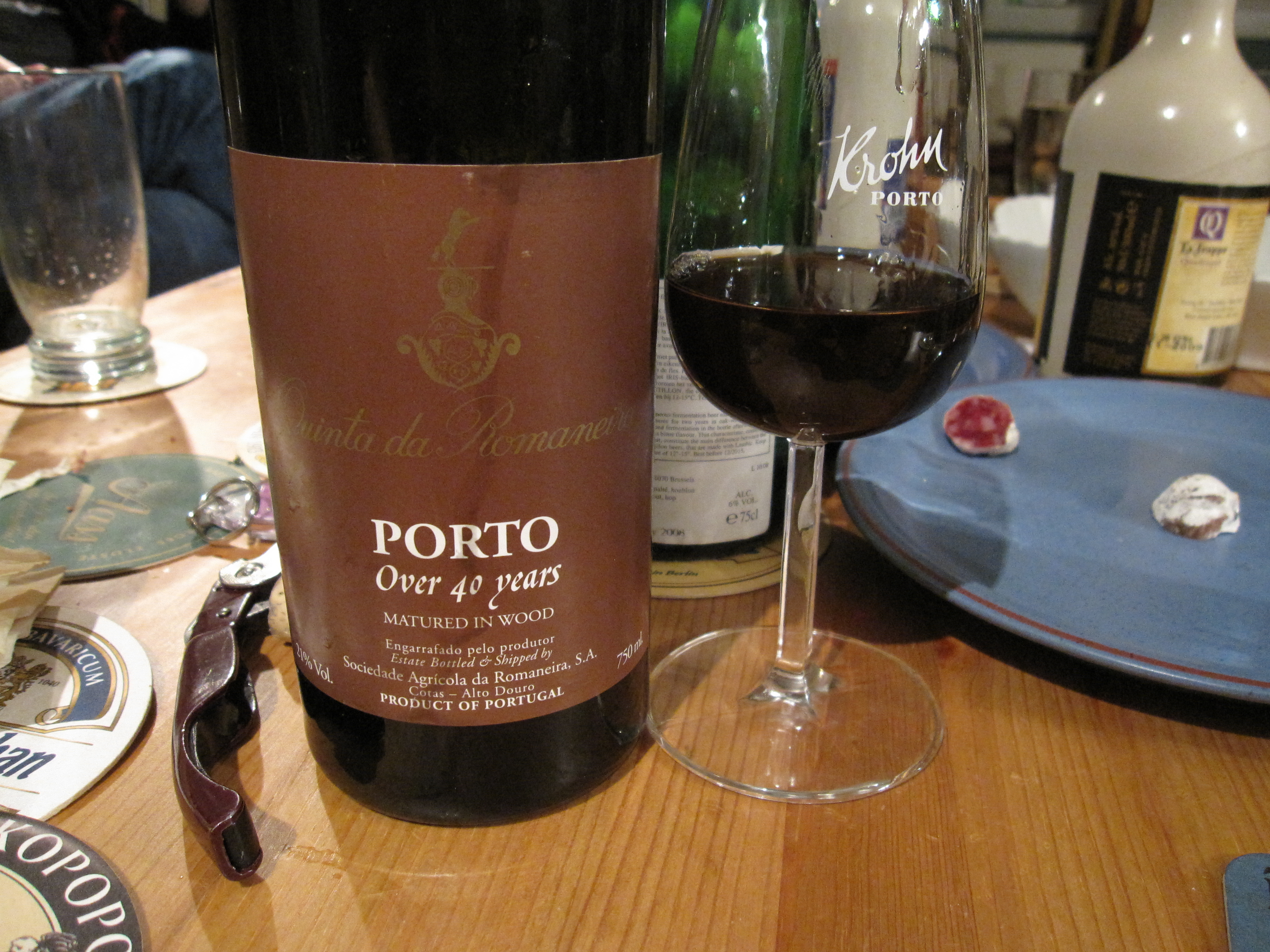 A bottle of Tawny Port wine from Quinta da Romaneira in the Douro valley of Portugal.